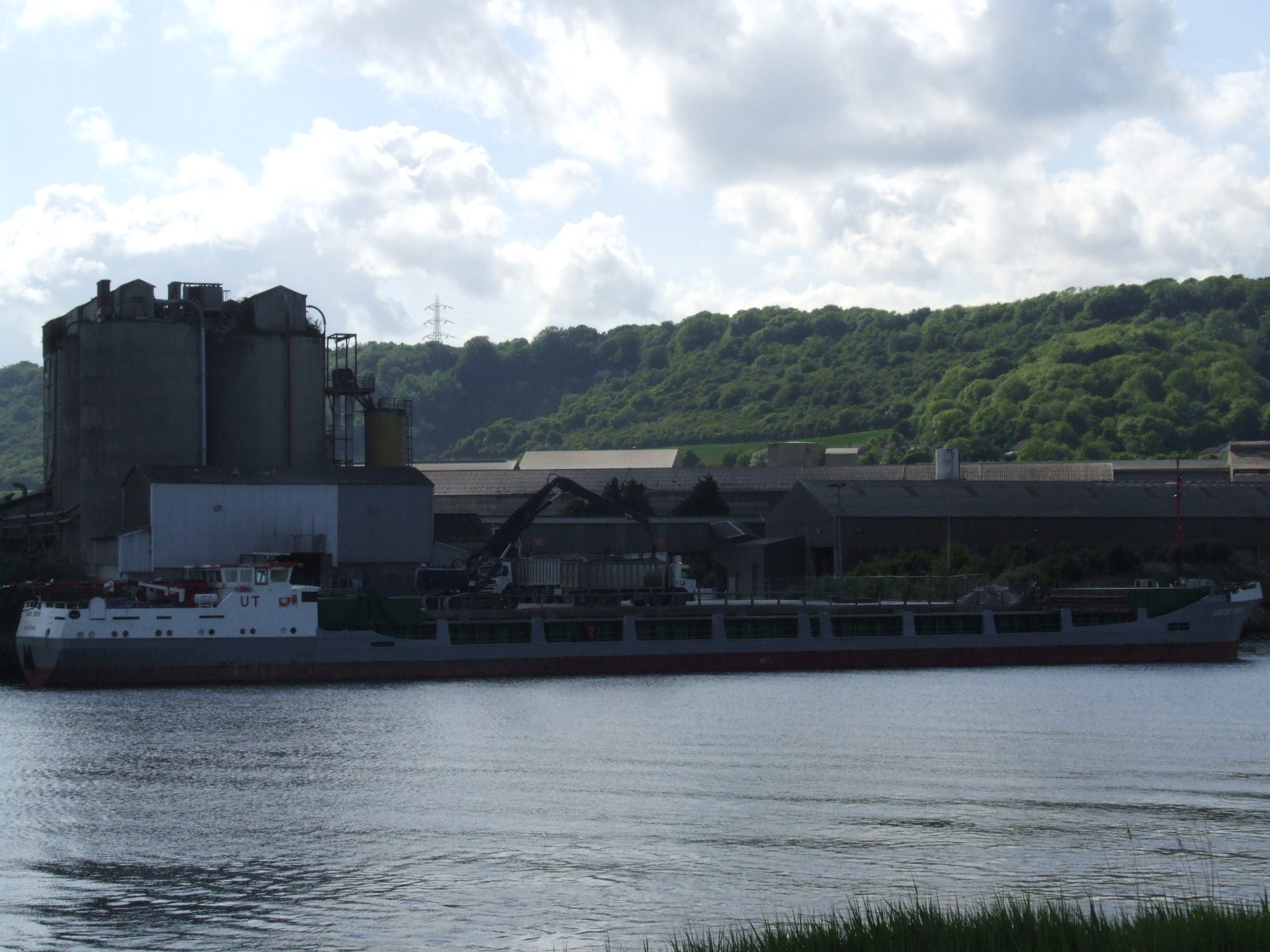 Halling, Kent on the River Medway . From Wouldham Marshes, over the Medway to the cement works at Halling with ship Union Moon unloading.